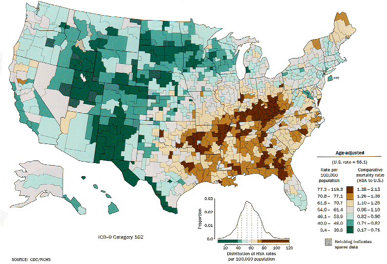 Distribution of lung cancer in the United States for white males from 1988 to 1992.